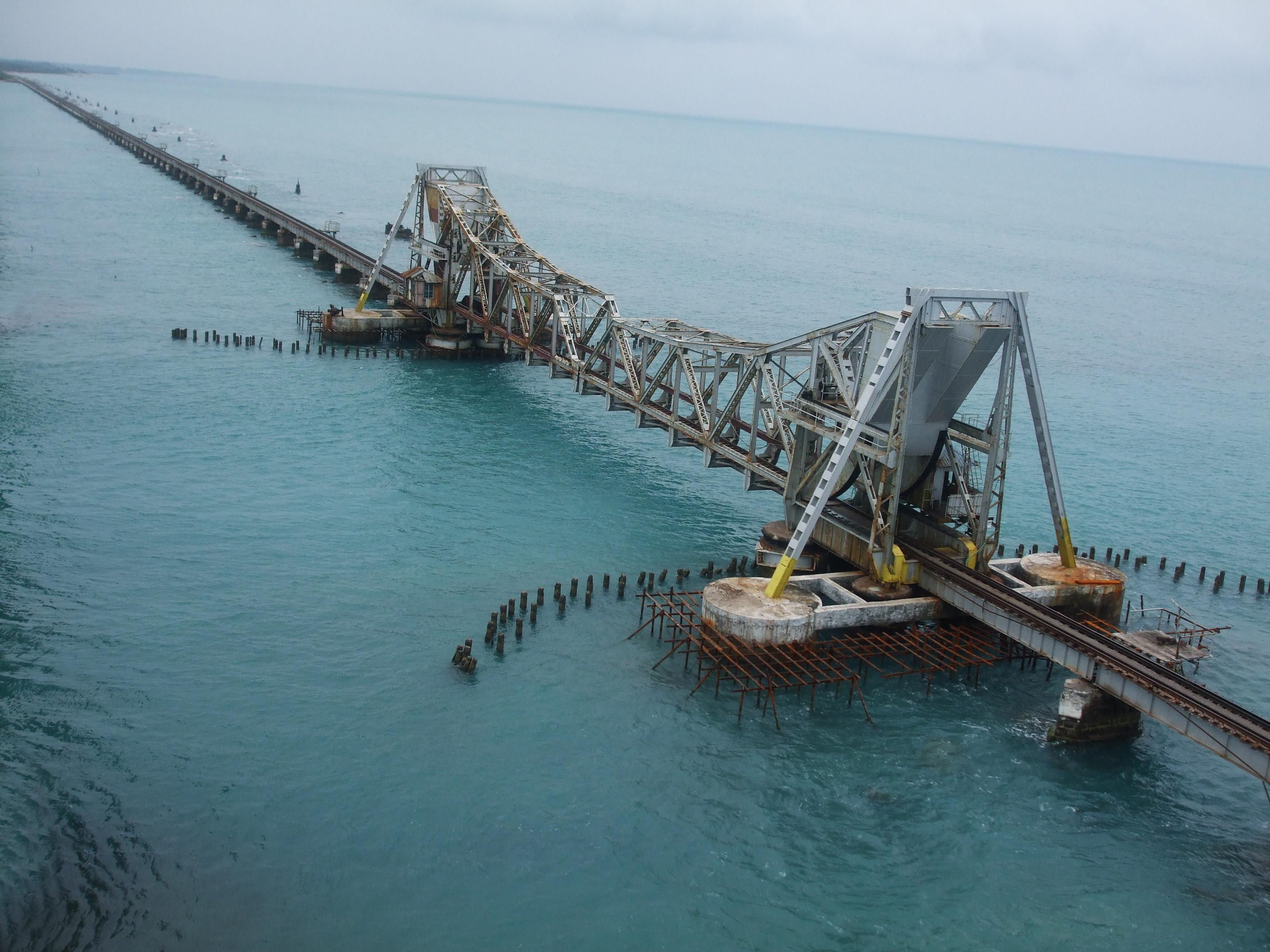 Pamban Rail Bridge